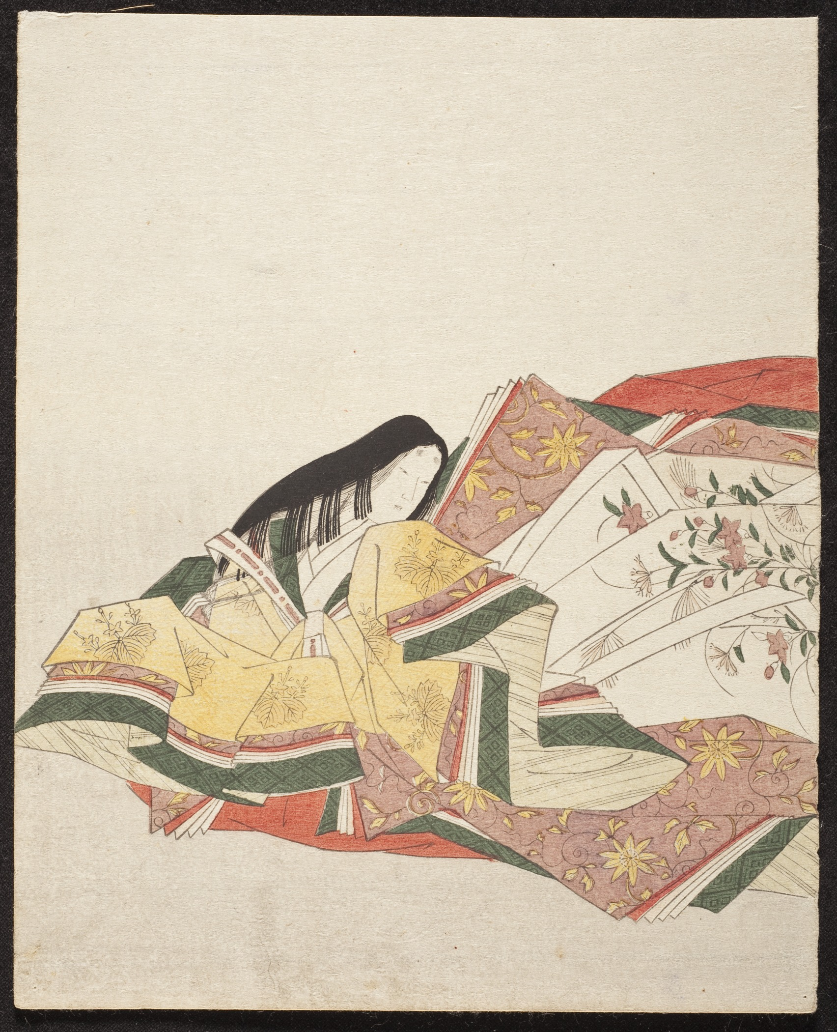 circa 1800 Series: Thirty-six Immortal Poetesses (detail) Prints; woodcuts Color woodblock print Sheet: 9 1/8 x 7 3/8 in. (23.18 x 18.73 cm) The Joan Elizabeth Tanney Bequest (M.2006.136.76) Japanese Art